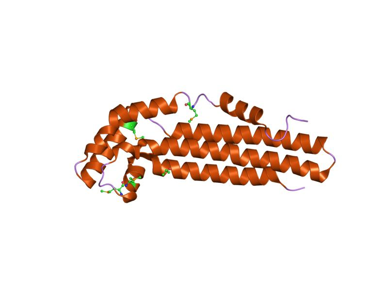 Cartoon representation of the molecular structure of protein registered with 1s2x code.